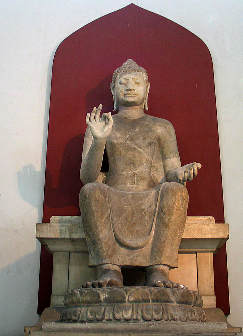 Sitting Buddha, Vitarka mudra ("giving instruction"), Dvaravati style, Phra Pathom Chedi, Nakhon Pathom, Thailand